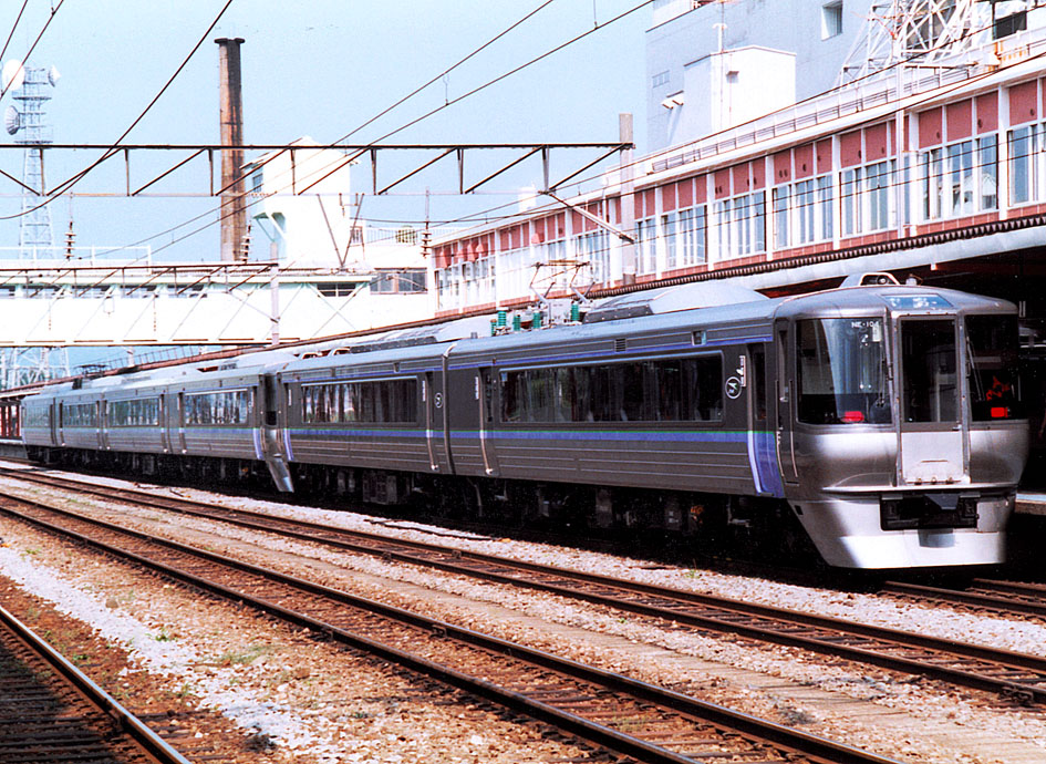 JR Hokkaido 785 series EMU on a "Super White Arrow" limited express service at Asahikawa Station